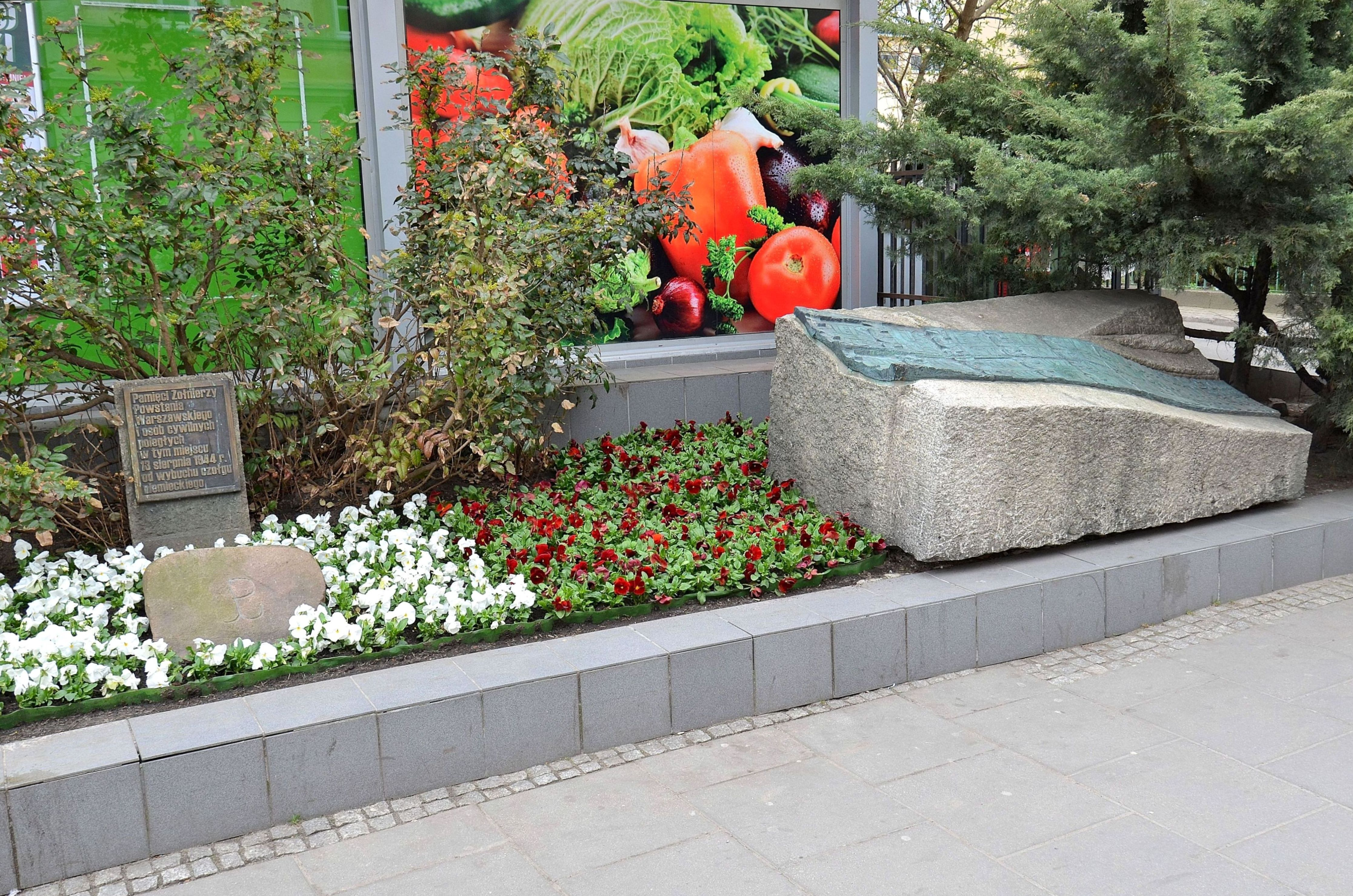 Commemoration of the explosion of a German tank in Kilińskiego Street in Warsaw on August 13, 1944